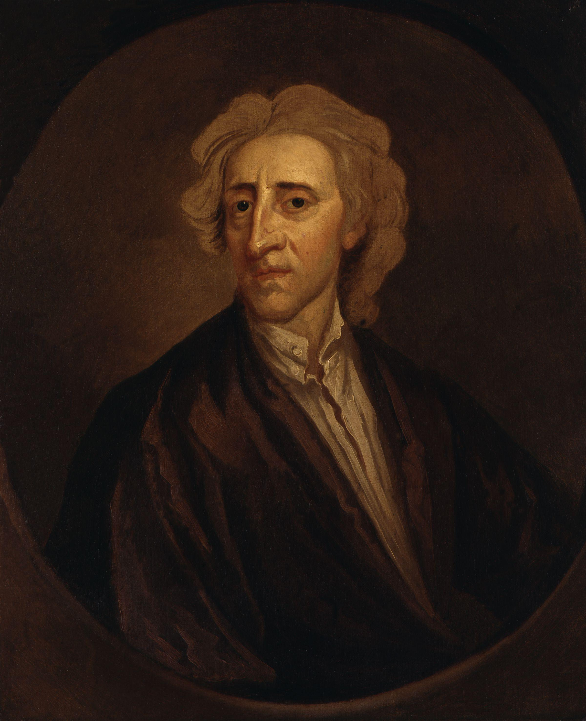 John Locke, after Sir Godfrey Kneller, Bt (died 1723). All images in this batch have been confirmed as author died before 1939 according to the official death date listed by the NPG.